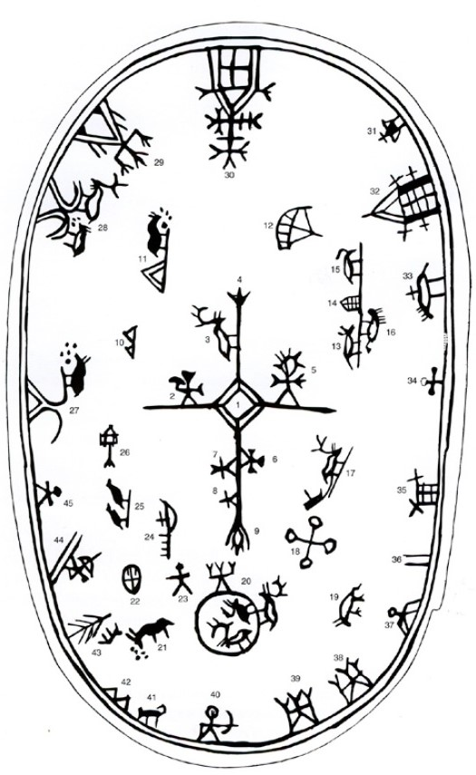 Sami drum from Folddalen, Nord-Trøndelag, Norway. (Frøyningsfjell) Frame drum. Height 48; width 30 cm. No 30 in Ernst Manker's Die lappische Zaubertrommel (1938/1950). Owned by Bendix Andersen Frennings Fjeld and Jon Torchelsen Fipling-Skov; drum confiscated from them 1723. An explanation from them concerning the symbols of the drum were written down, and were published by Just Qvigstad in 1903 (pdf). Owned by Henneberger Museum since 1837, kept at Meininger Museum, Meniningen